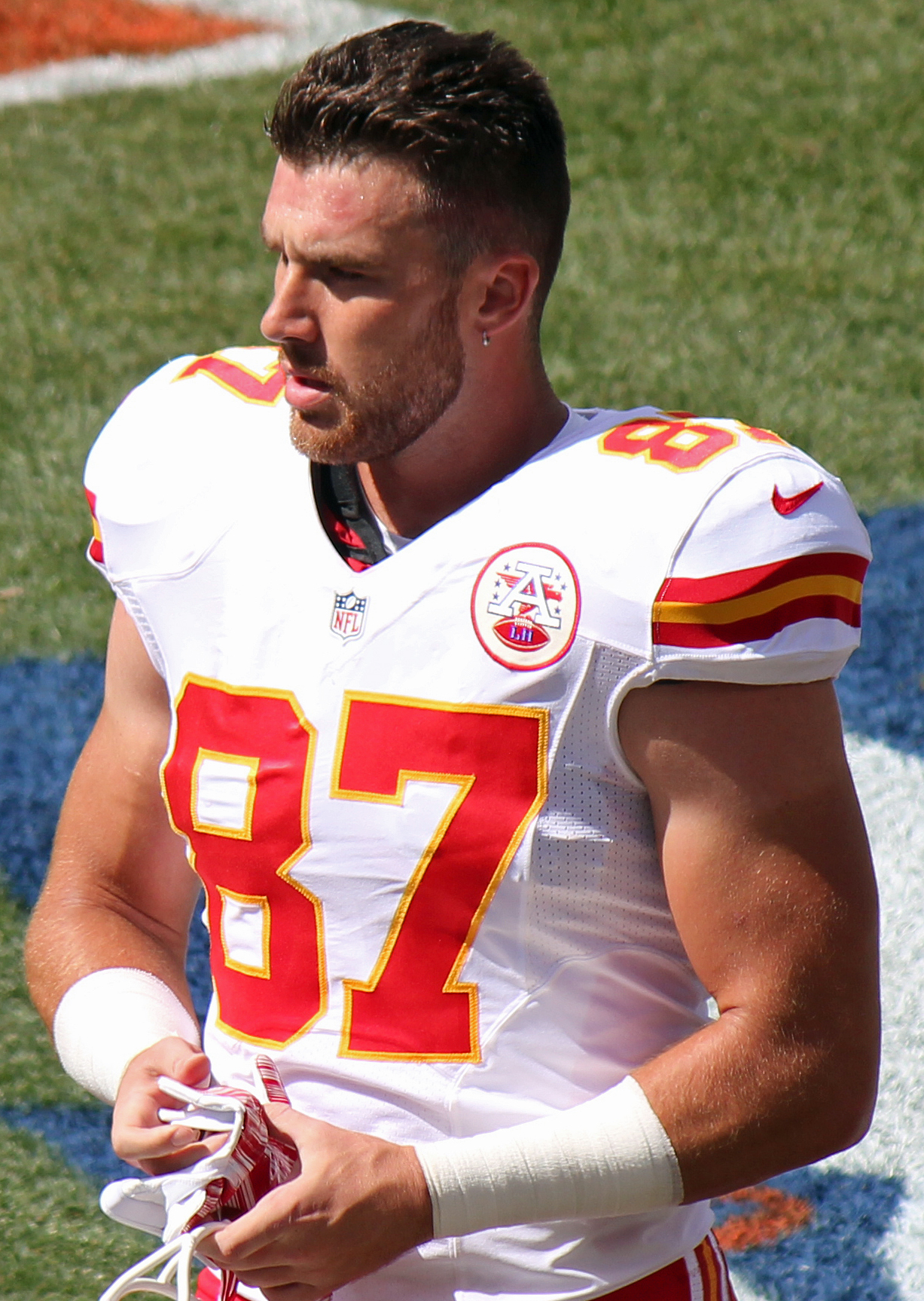 Travis Kelce, a player on the National Football League.